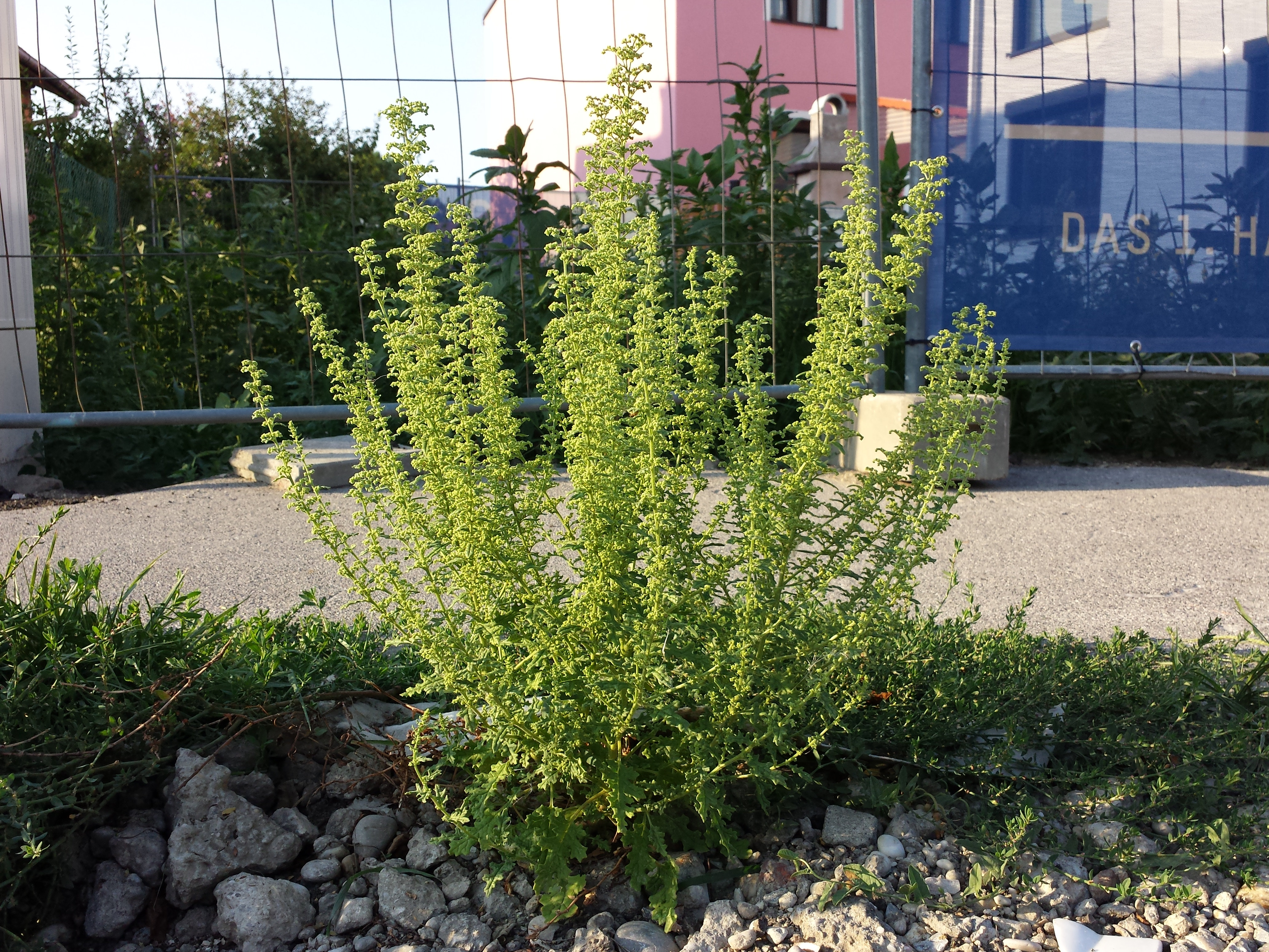 Habitus Taxonym: Dysphania botrys ss Fischer et al. EfÖLS 2008 ISBN 978-3-85474-187-9 Location: Bruckhaufen, Vienna-Floridsdorf - ca. 160 m a.s.l. Habitat: stony rudeal area